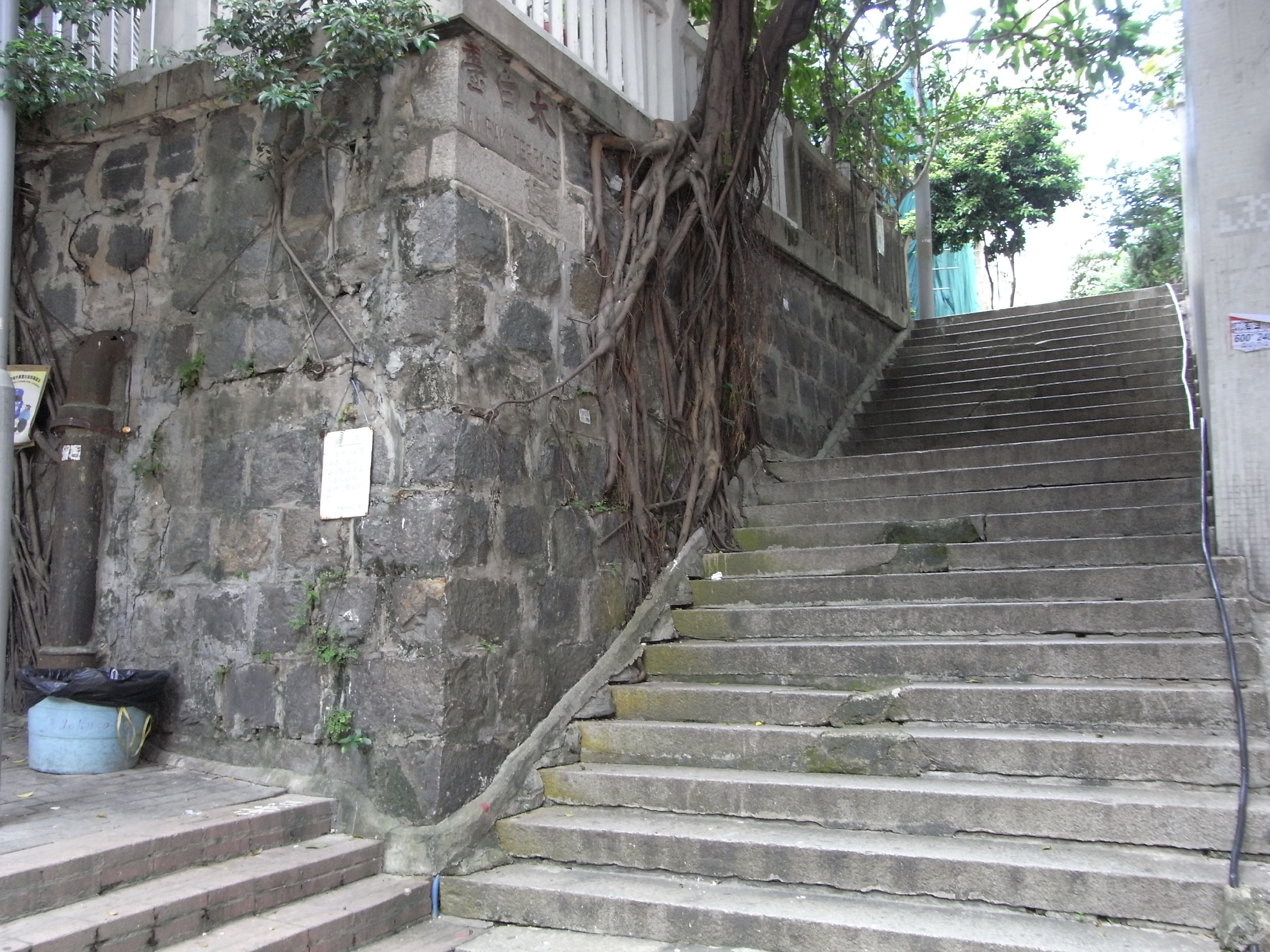 堅尼地城李寶龍路